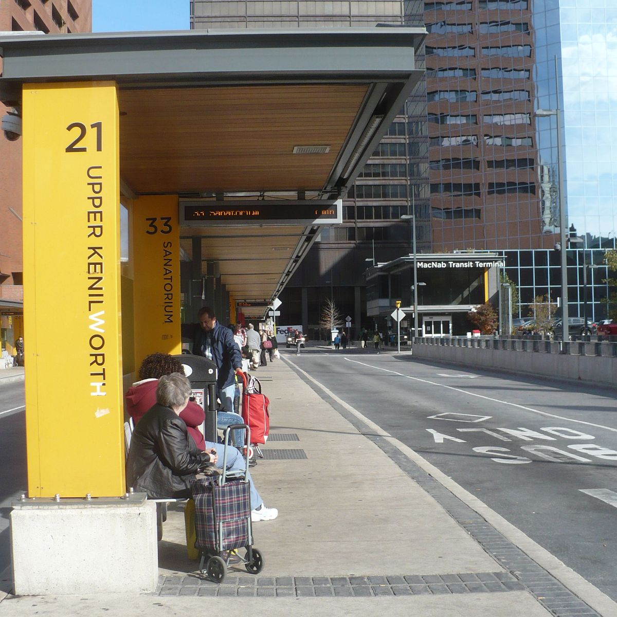 MacNab Transit Terminal in downtown Hamilton, Ontario